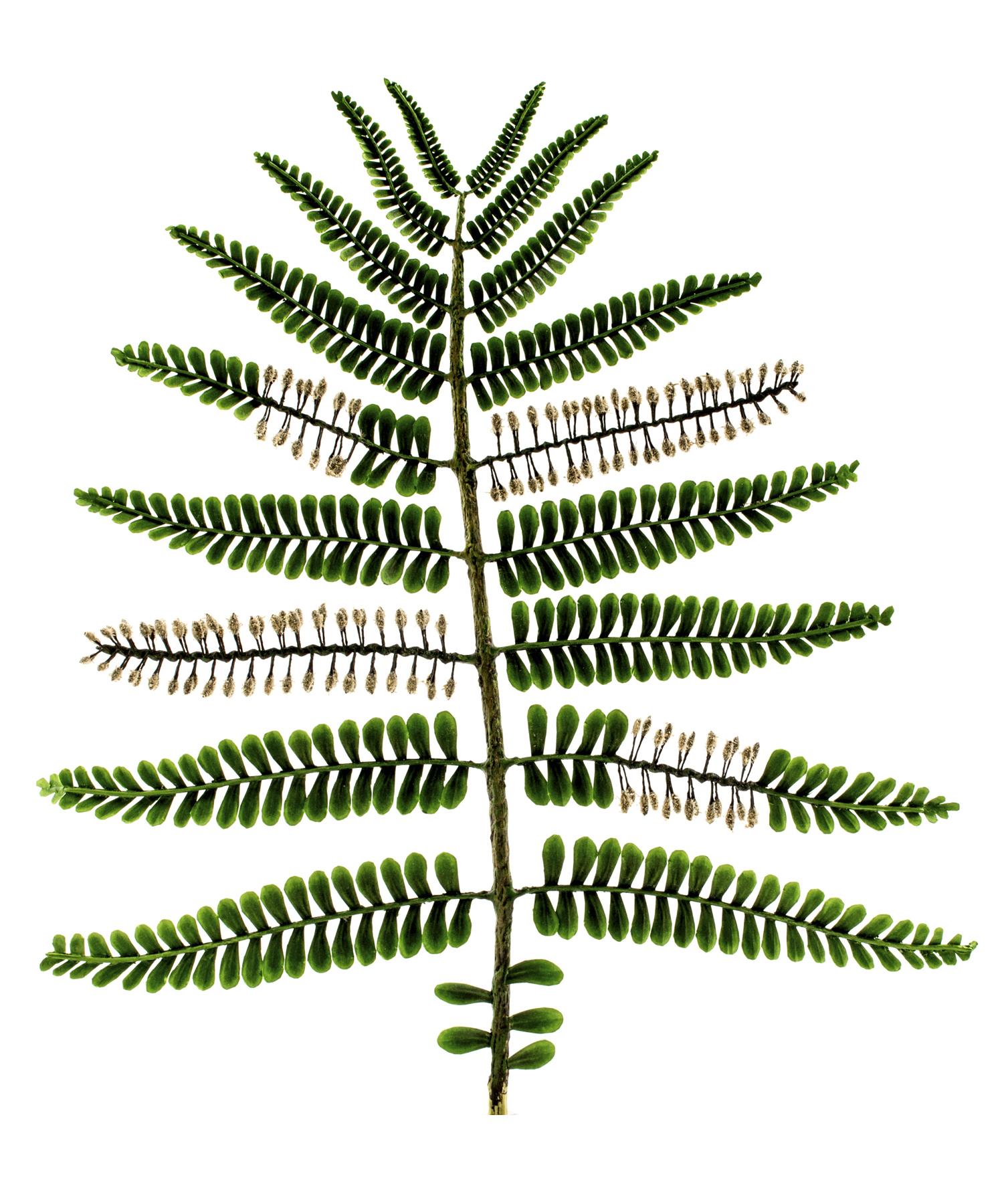 Reconstruction - 1:1 scale